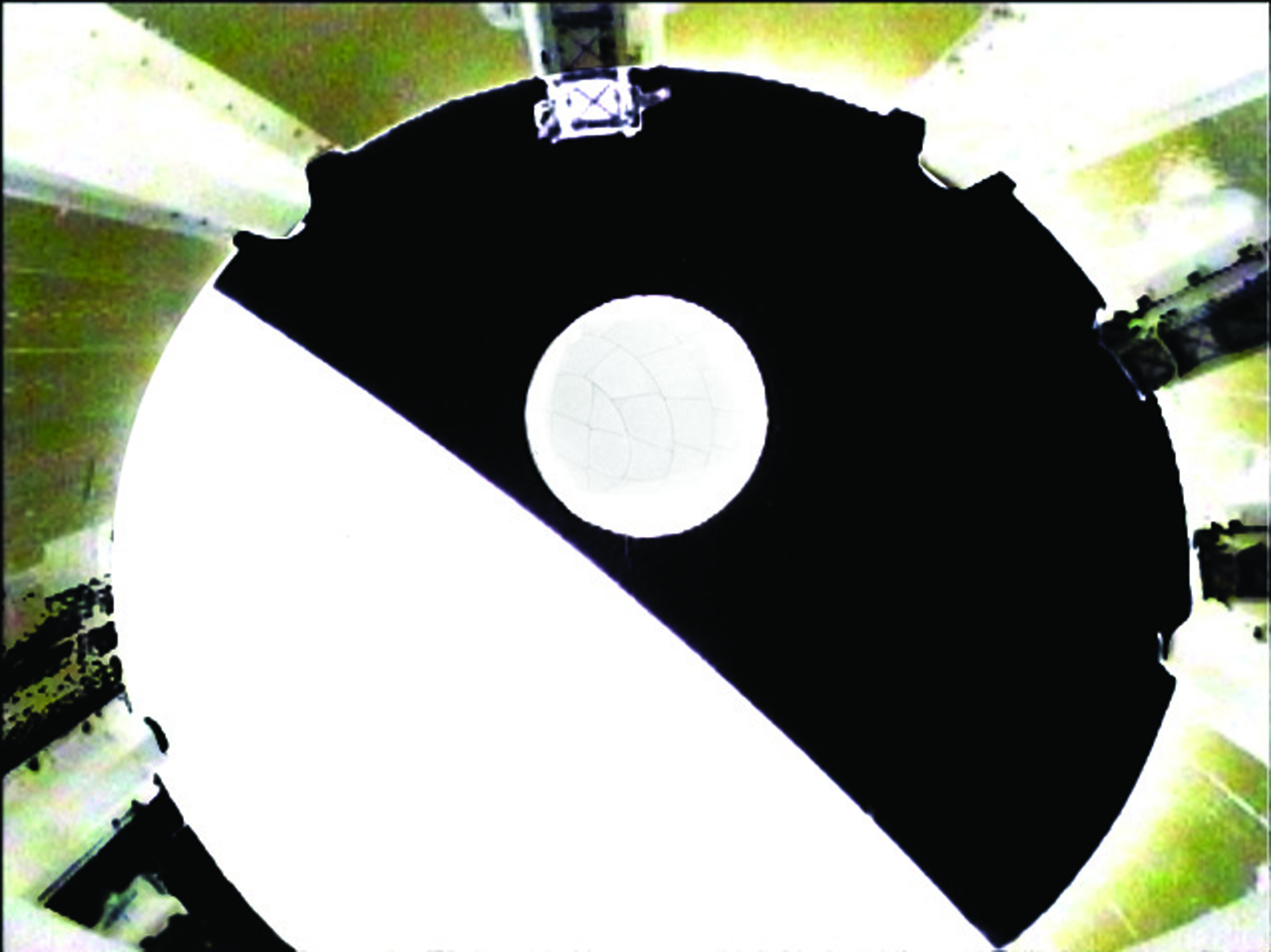 View of the Dragon spacecraft floating away from its trunk while orbiting the Earth during the COTS 1 mission.